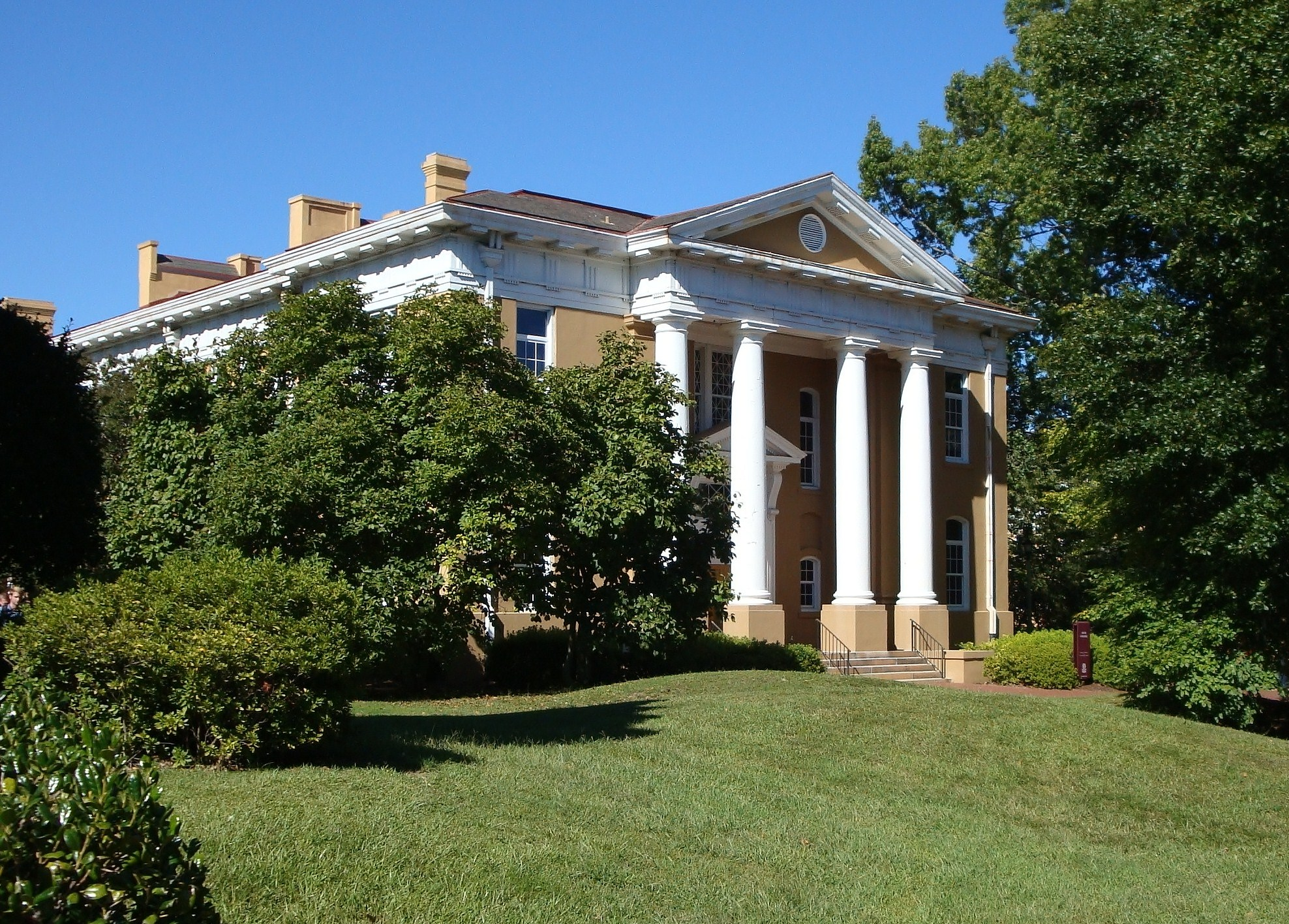 Built in 1909, Davis College was the first building constructed on the University of South Carolina after the conclusion of the Civil War. It is now the home of the School of Library and Information Science.